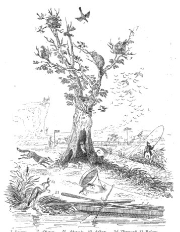 Prepositions by Cramp - illustration by Hurdis